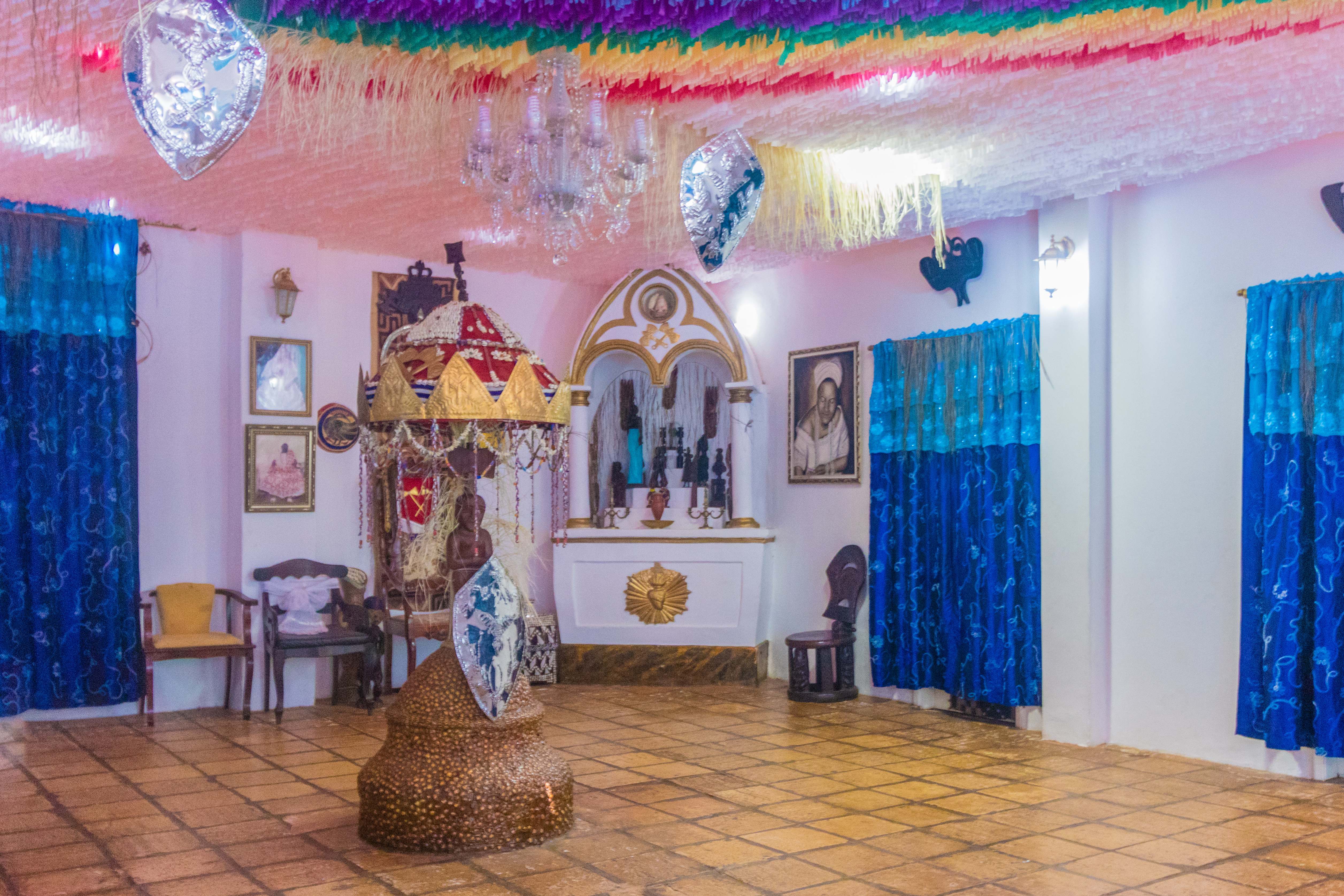 Barracão de Festas. Casa de Oxumarê, Salvador, Bahia, Brazil.